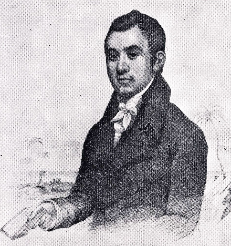 From the Indo-Chinese Gleaner No. 1, May 1817.